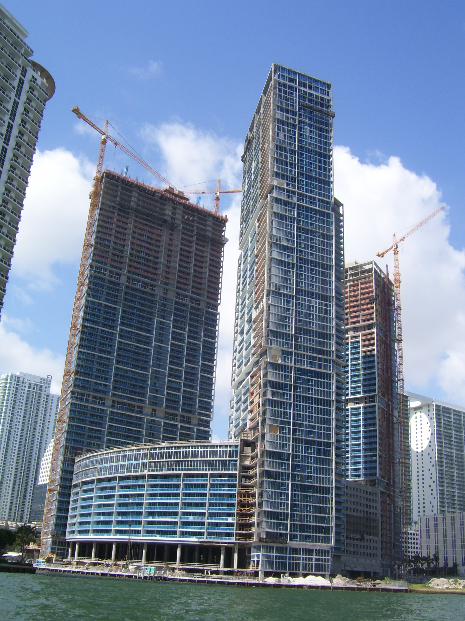 The Icon Brickell twin towers, Miami's 10th-tallest buildings